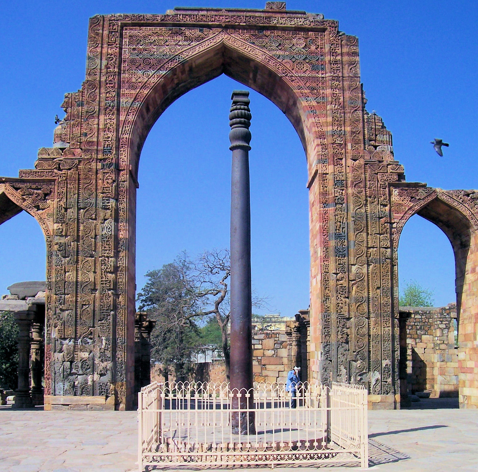 Iron Pillar erected by Chandragupta II Vikramaditya, within Qutb complex, Merauli, Delhi (file name incorrect)